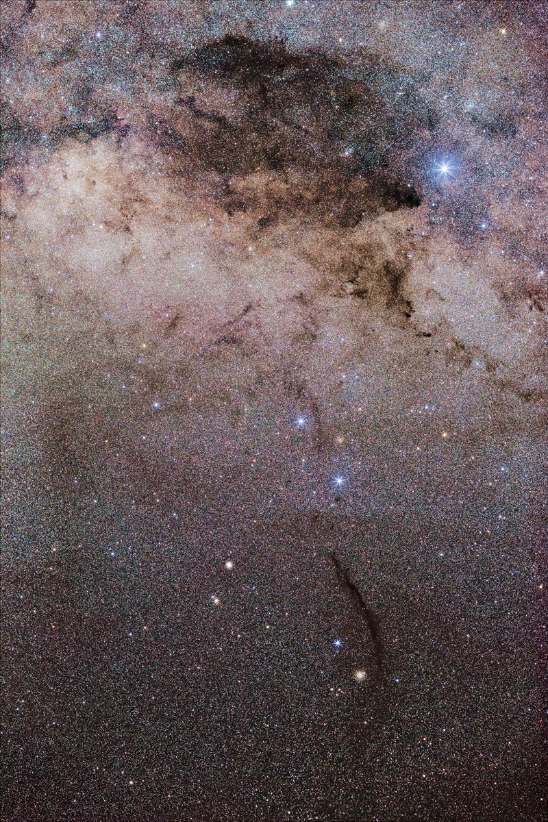 The Coalsack Dark Nebula and Dark Doodad Nebula. Image created with 20 × 90 second (total 30 minutes) sub-exposures taken with a Canon EOS 5D Mark II and 135 mm f/2L lens at f/4 and ISO 3200 on an Astrotrac equatorial mount, stacked using Deep Sky Stacker and finished using Adobe Photoshop CS5.